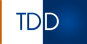 logo tdd fjk